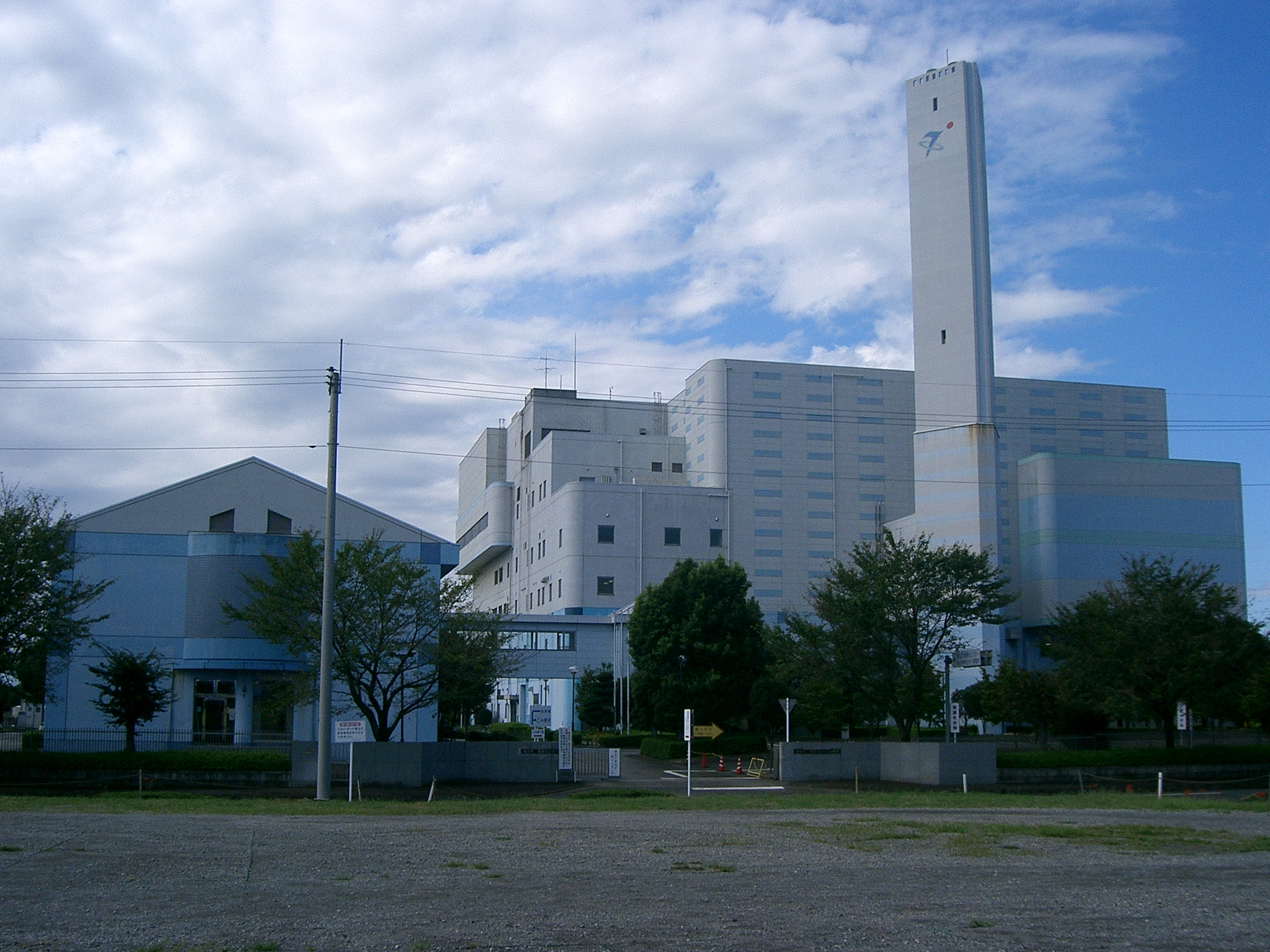 Kiryu City Cleaning Center in Gunma prefecture, Japan.